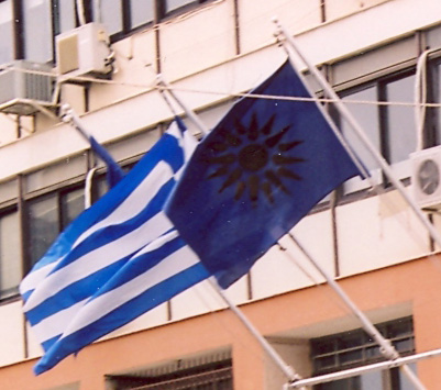 Megistias is the creator of this work.